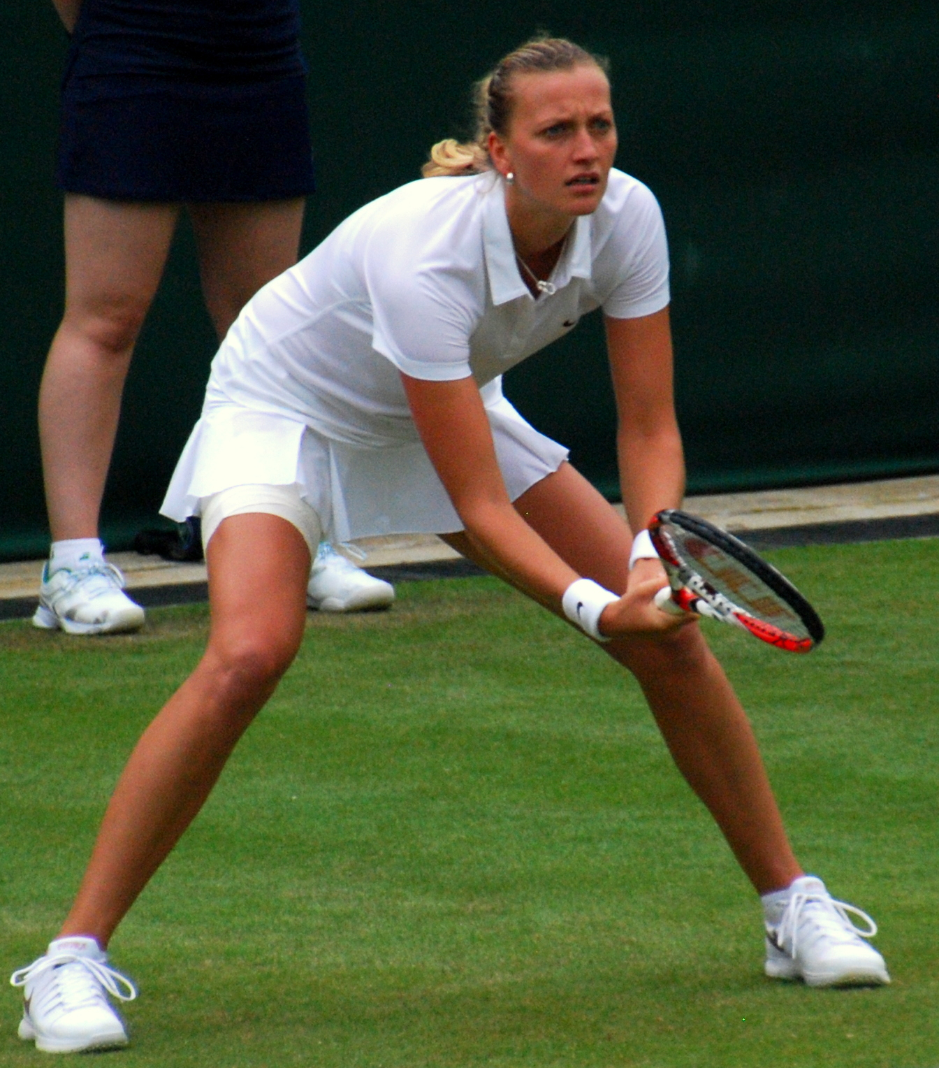 Petra Kvitova during her first round match with Andrea Hlavackova. Petra won this and her next six matches, to become Wimbledon champion for a second time. Day 1 of Wimbledon 2014.